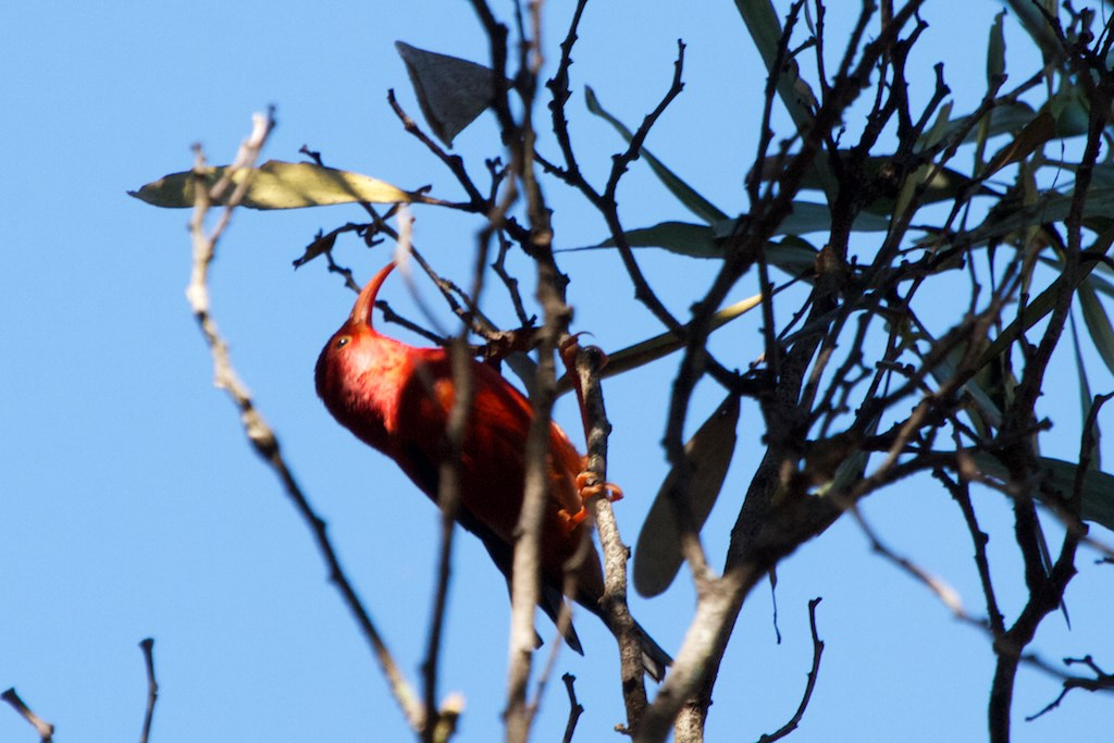 An adult Iiwi in Hawaii.